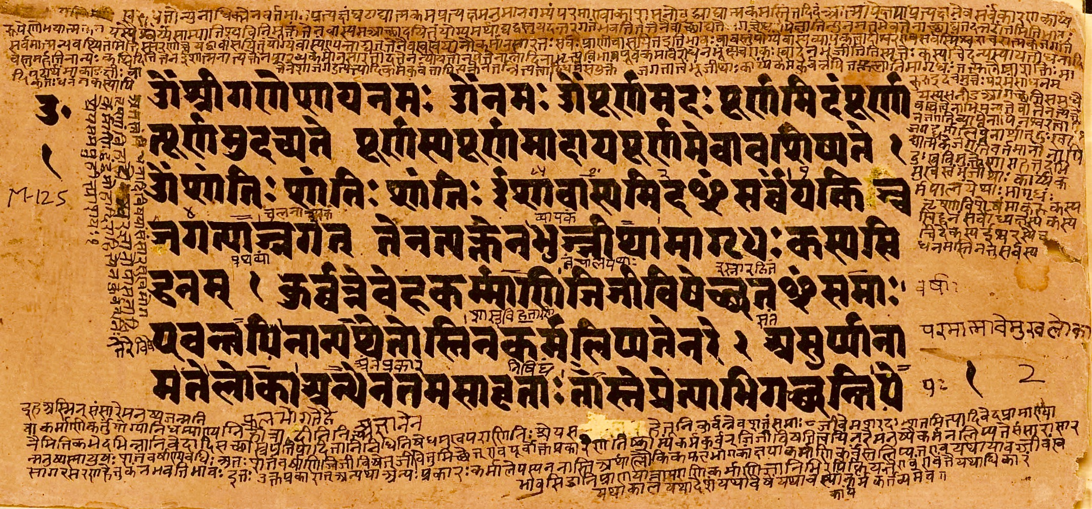 The early Upanishads (Upanisad, Upanisat) are scriptures of Hinduism. Variously dated by scholars to have been composed between 900 BCE to about 200 BCE, these texts are in Sanskrit language and embedded within a layer of the Vedas. They contain a mixture of philosophy and mystical speculations, many set in the form of dialogues or pedagogic style. Their central teachings include the concepts of Atman (soul, self) and Brahman (metaphysical reality). These manuscripts are preserved at the Lalchand Research Library, Ancient Indian Manuscript Collection, DAV College Digital Library Initiative, Chandigarh India, in association with SP Lohia and Indorama Charitable Trust. The texts are over 2000 years old, the re-copying into this particular manuscript is dated to a pre-1867 reproduction (exact date unknown). The manuscript shows significant stain marks, decay and damage on the sides and its edges. Language: Sanskrit Script: Devanagari Script style: pre-14th century (Northern / Western) Isha Upanishad, verses 1–2, partially 3 The thick text is the Upanishad scripture, the small text in the margins and edges are an unknown scholar's notes and comments in the typical Hindu style of a minor bhasya. The photo above is of a 2D artwork of a text that is over 2,000 years old, from a manuscript that was produced decades before 1923. Therefore Wikimedia Commons PD-Art licensing guidelines apply. Any rights I have as a photographer is herewith donated to wikimedia commons under CC 4.0 license. ईशावास्‍योपनिषद्